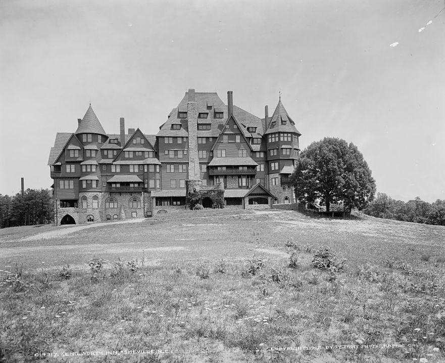 Kenilworth Inn, Ashville, North Carolina (1890-91, burned 1909), William Lightfoot Price, architect.